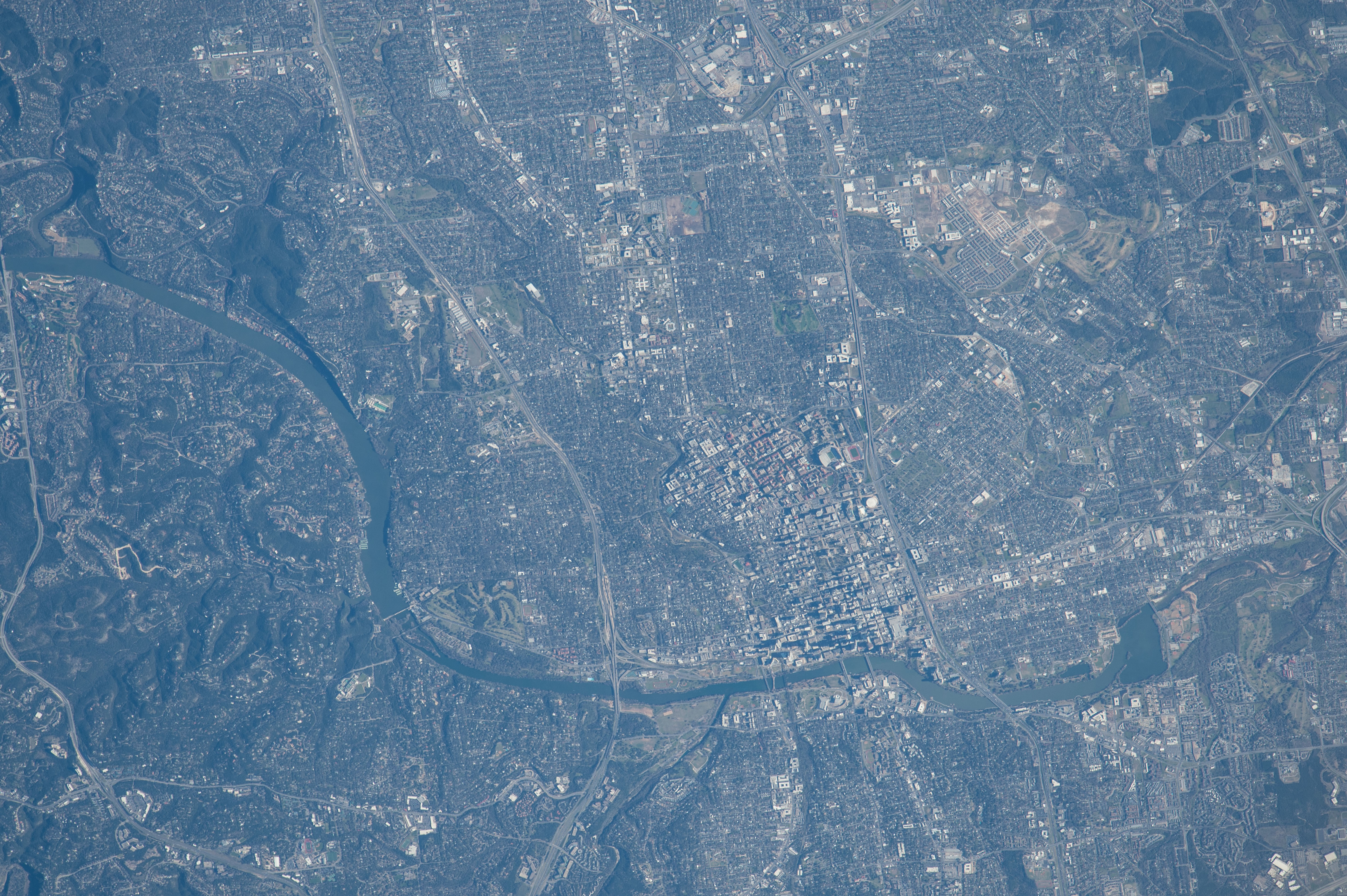 NASA astronaut Tim Kopra tweeted this image with the comment: "#ATX #TheresNoPlaceLikeHome - where I graduated from McCallum HS and dad taught @UTAustin. @VisitAustinTX @SXSW"